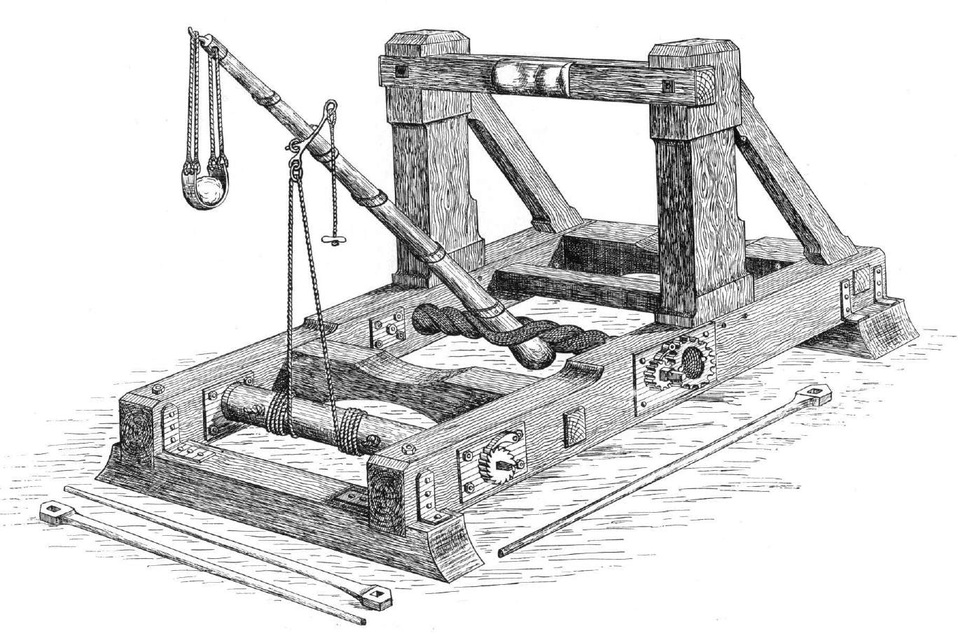 Onager with sling from Ralph Payne-Gallwey's book "The Projectile Throwing Engines of the Ancients" (1907).